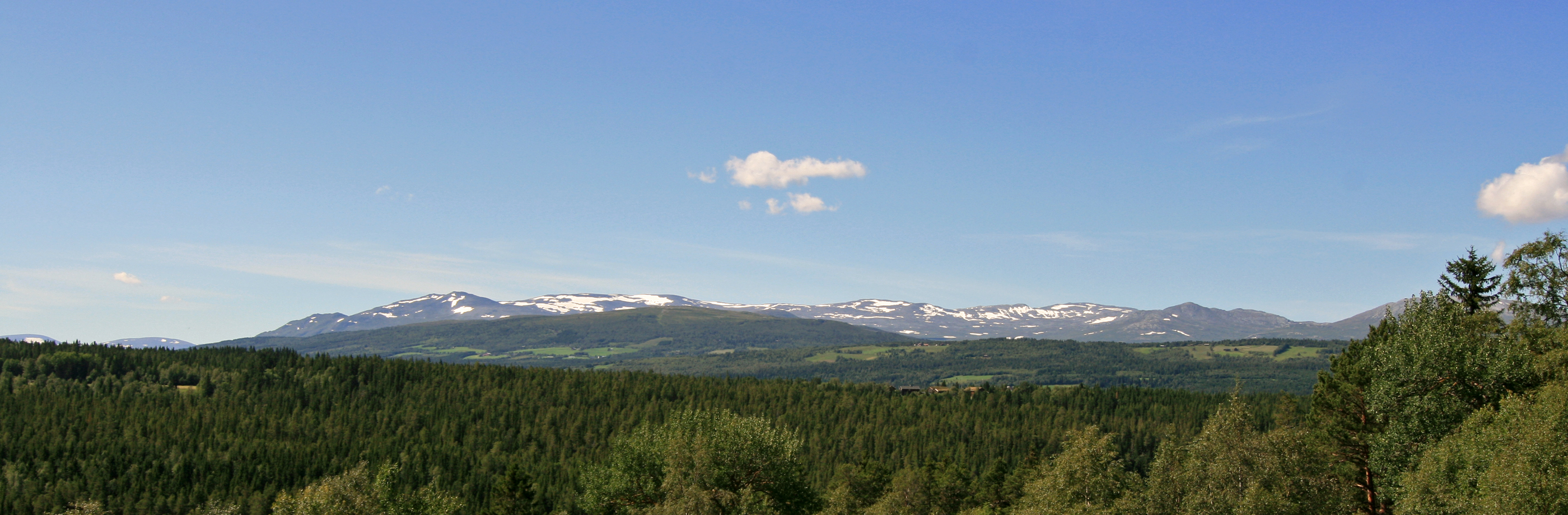 Trollheimen mountains, Norway, seen from south-east.